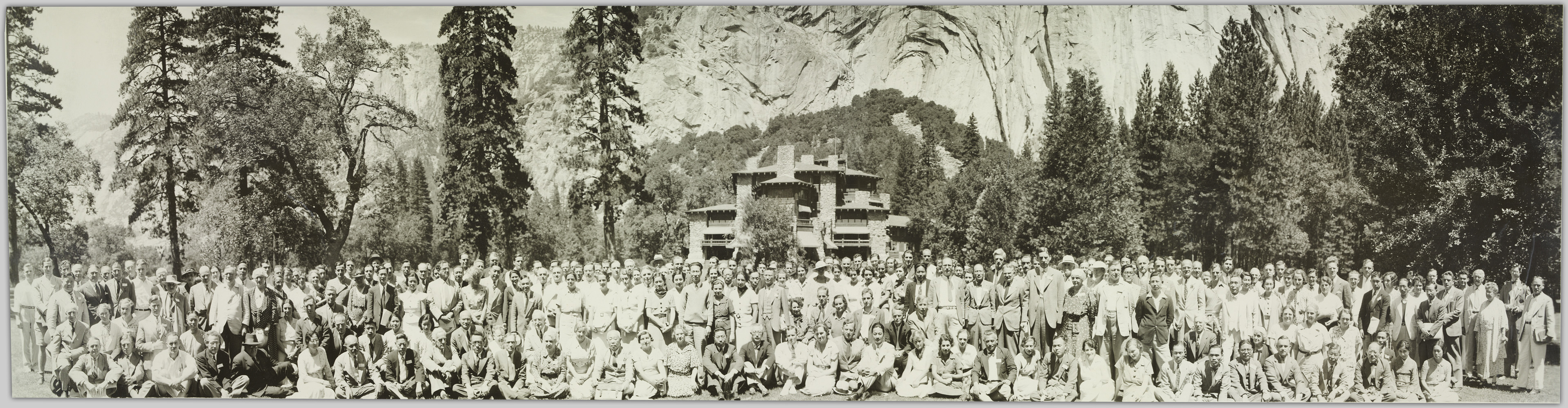 No known copyright restrictions. Please credit UBC Library as the image source. For more information, see Creator: Unknown Date Created: 1936 Source: Original Format: University of British Columbia. Archives. Institute of Pacific Relations fonds. Permanent URL